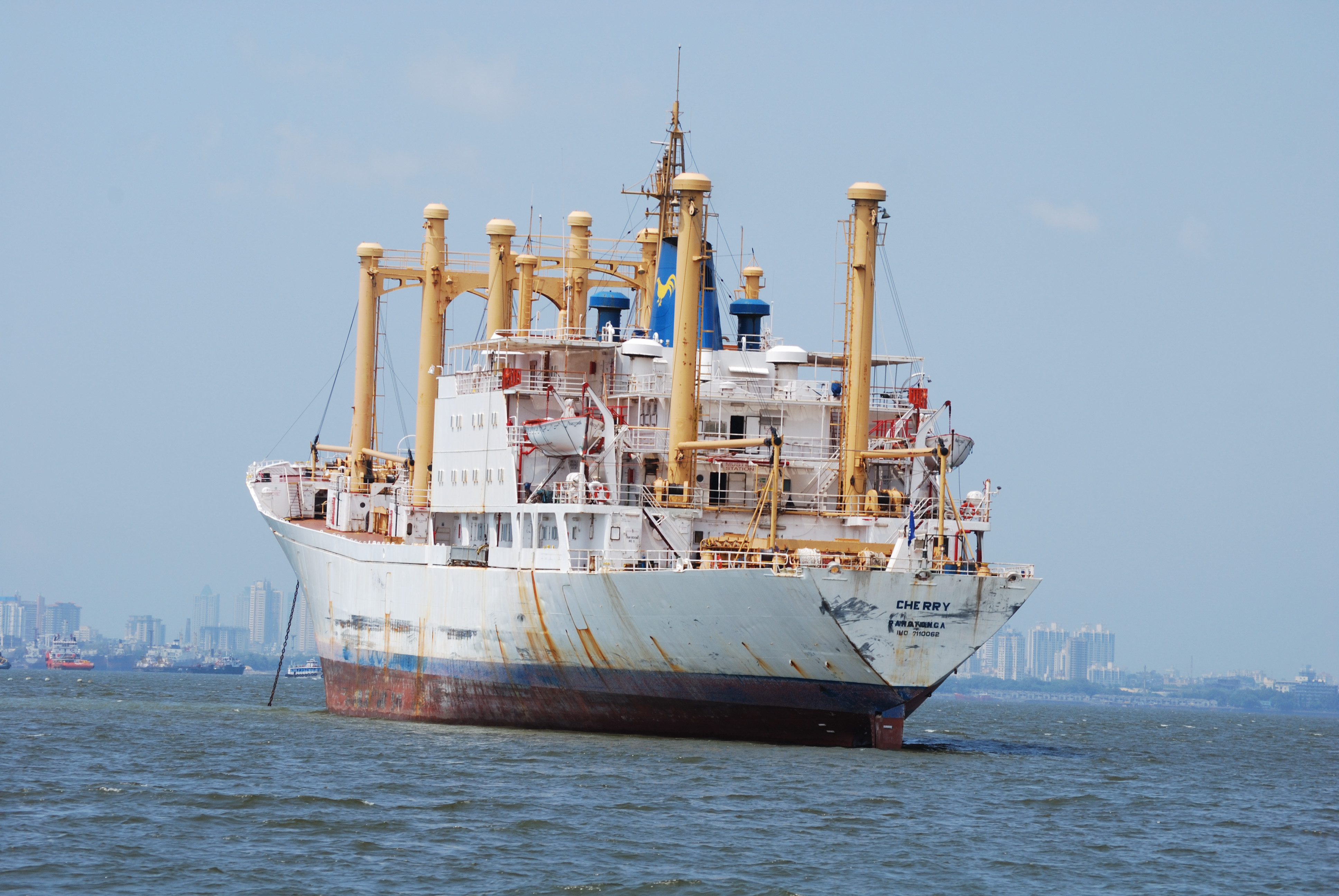 Refrigirated Cargo ship Cherry Build year: 1971 Built in Oslo, Norway Length: 156m Breadth: 21m Deadweight: 10800t Draught 6.5m Speed record: 17 knots Flag: Cook Island